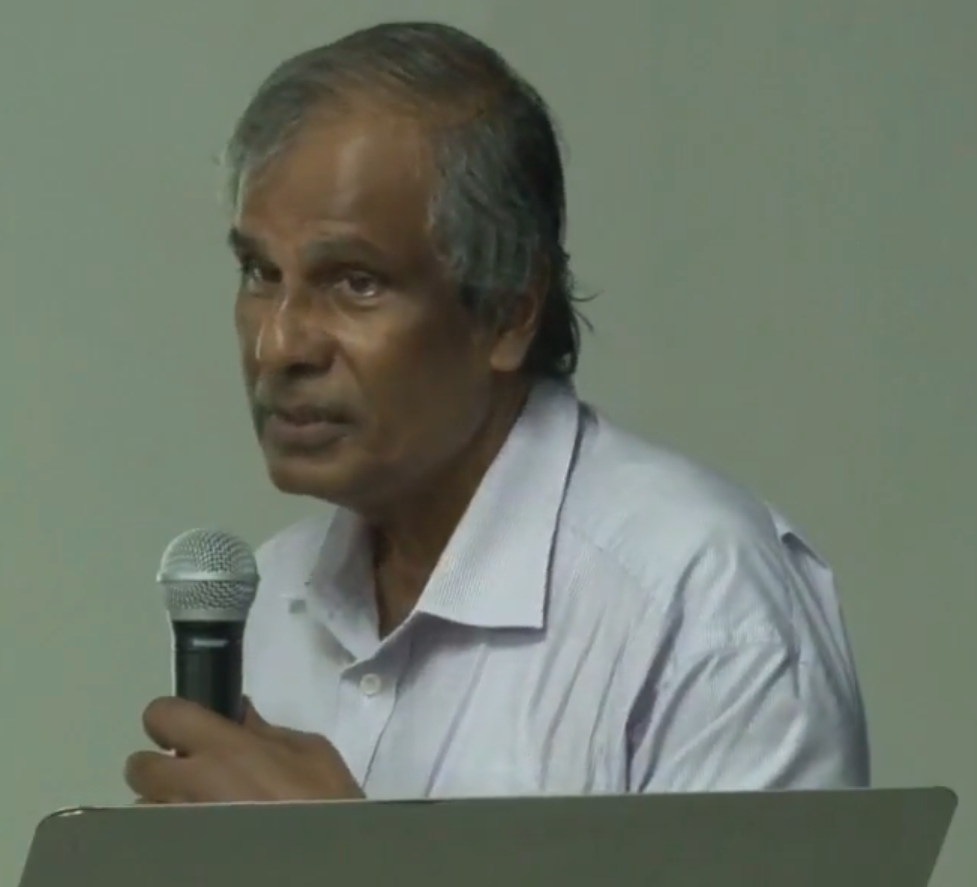 Richard Kalloe, former Surinamese government minister